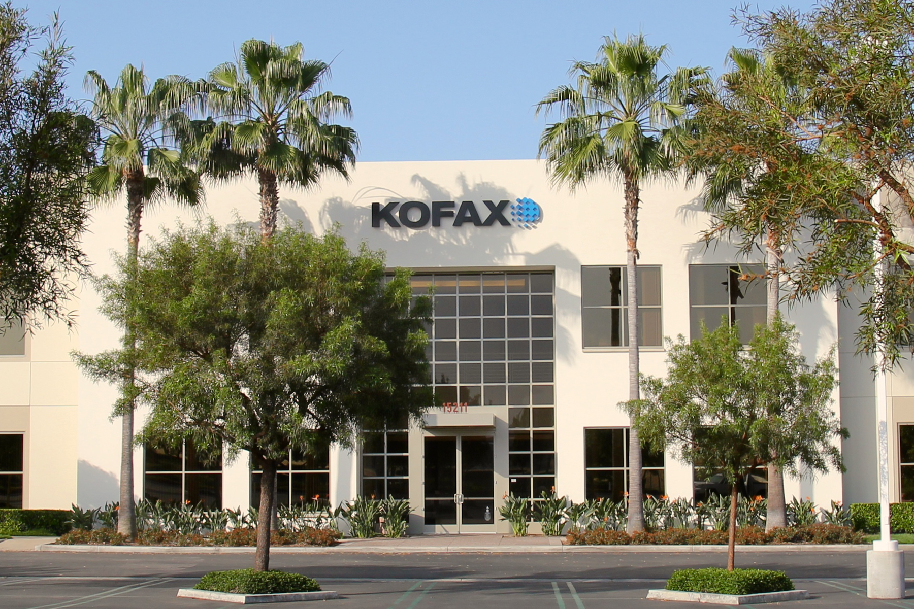 Kofax headquarters building